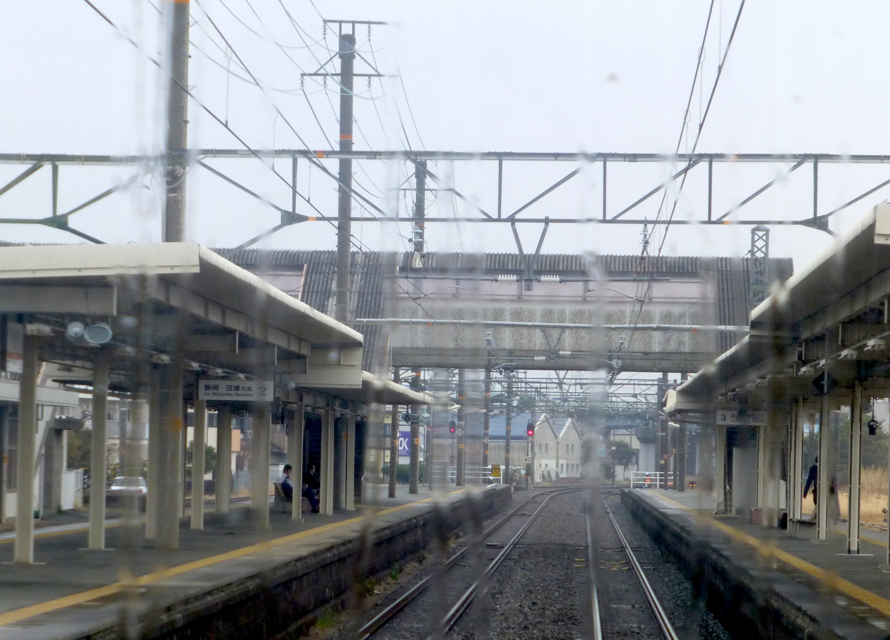 Tenryugawa station (天竜川駅） --- showing the station platforms on a rainy day.